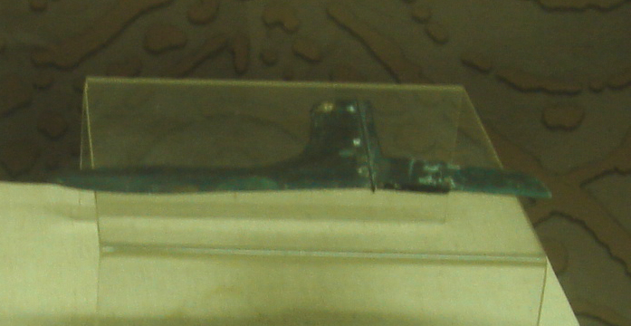 arm of Qin dynasty